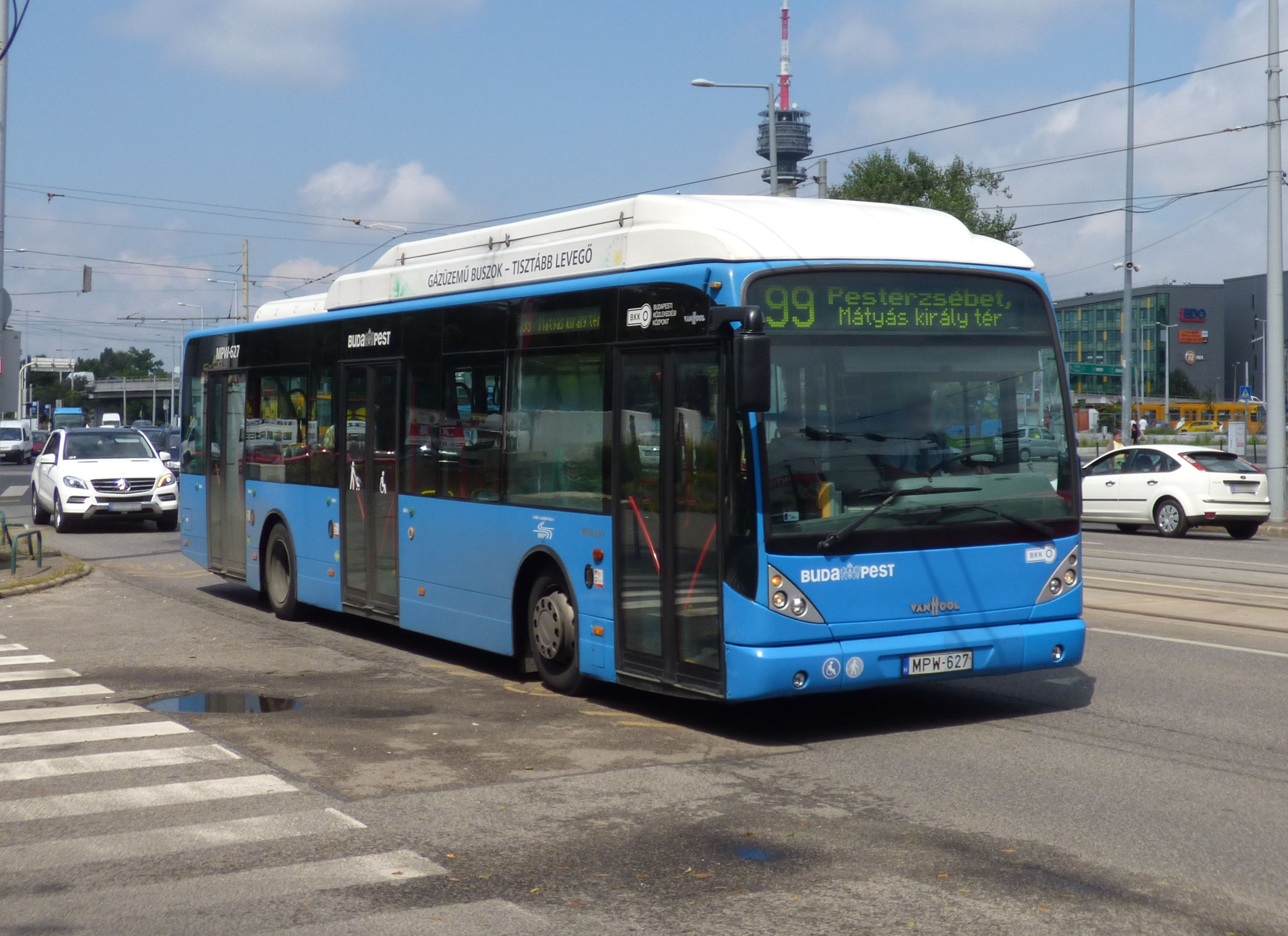 Van Hool A330 CNG bus (reg. MPW-627) on line number 99 (Budapest)